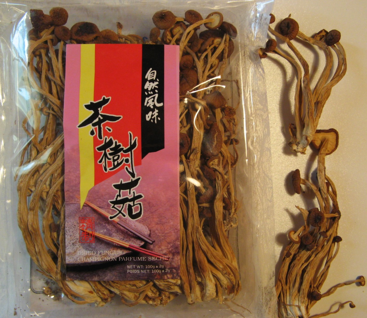 Dried pioppini mushrooms (probably Agrocybe aegerita - Velvet pioppini). Bought in an Asian supermarket in Germany. Chinese name (written in large hieroglyphs on the package): 茶樹菇